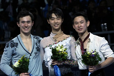 2014 Winter Olympic - Figure skating Men podium - Yuzuru Hanyu(1st), Patrick Chan (2nd), Denis Ten (3rd).